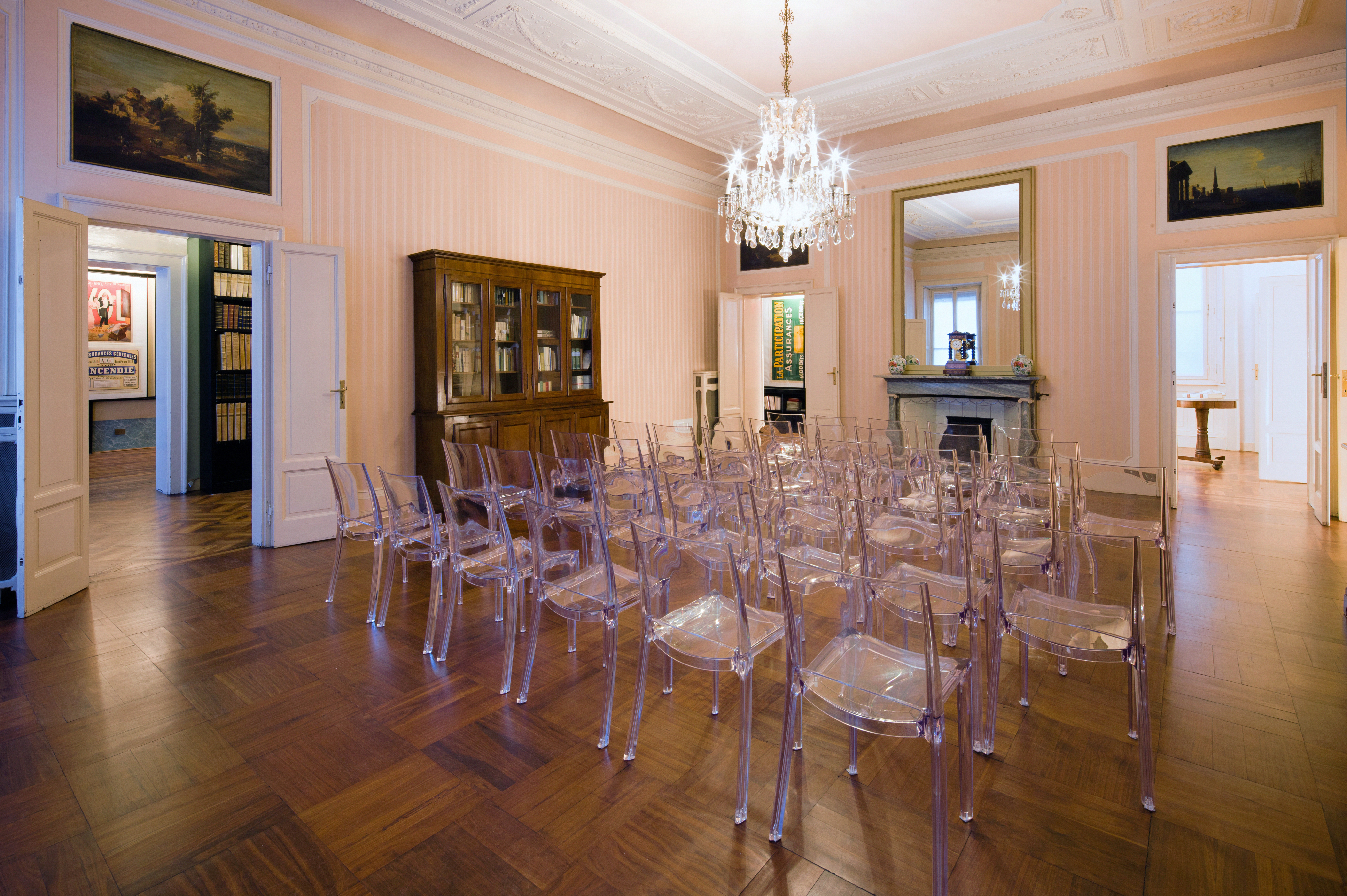 Fondazione Mansutti